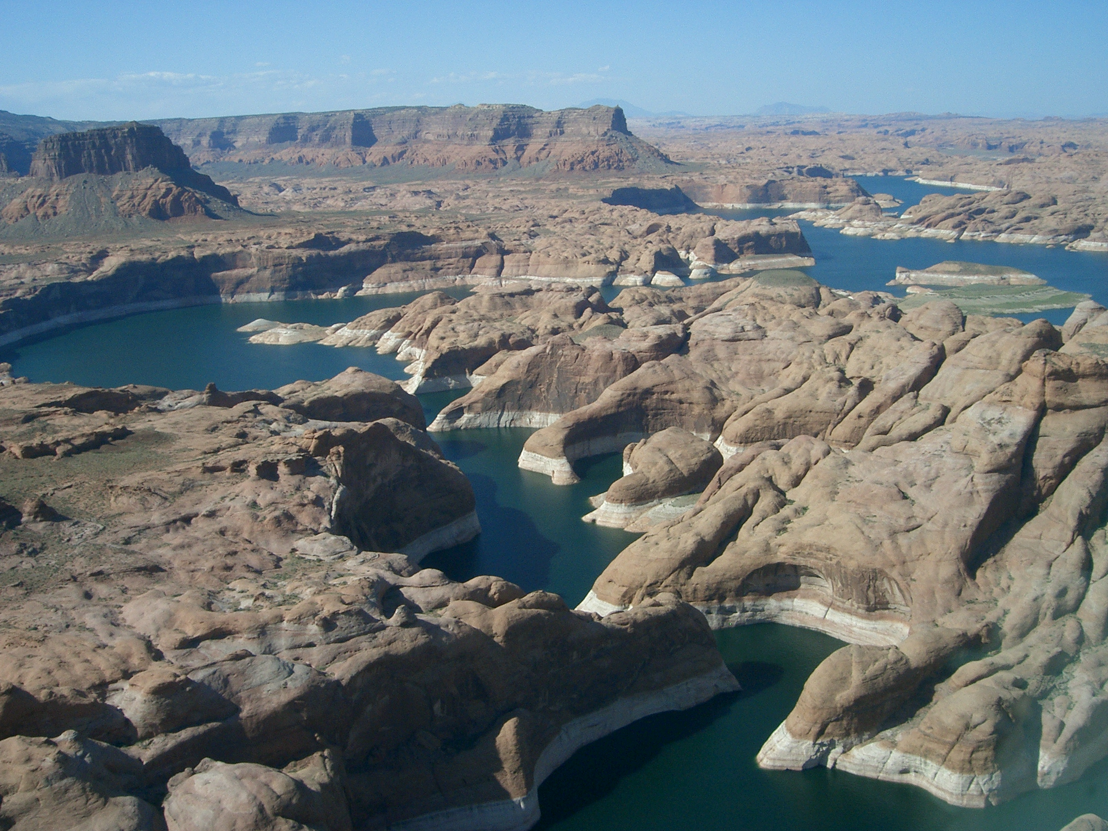 Lake Powell Utah, USA (from plane). Note the prominent "bathtub ring" made visible by low water (May 2007).